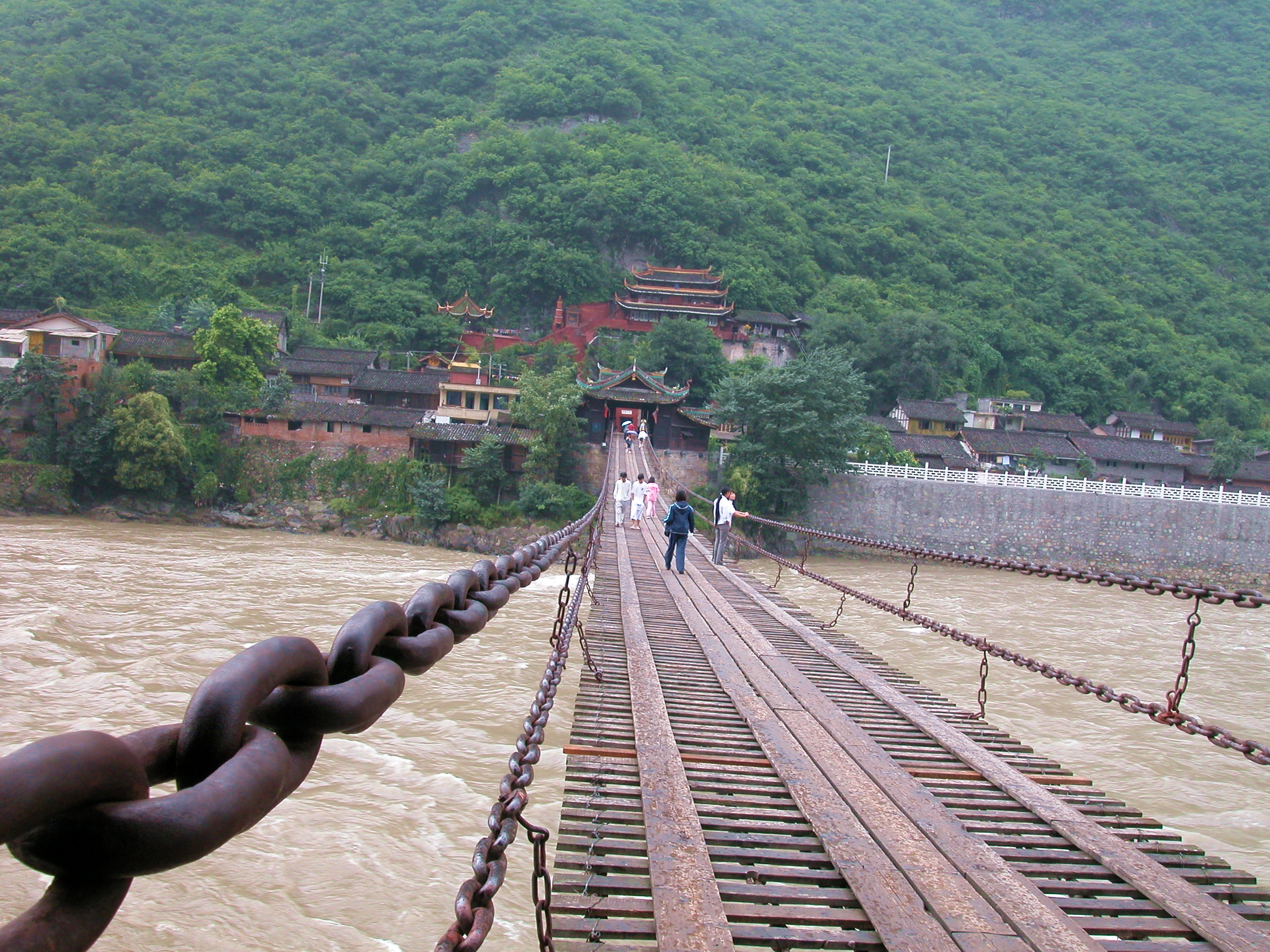 The Luding Bridge over the Dadu River in Luding County, Garzê Tibetan Autonomous Prefecture, Sichuan, China